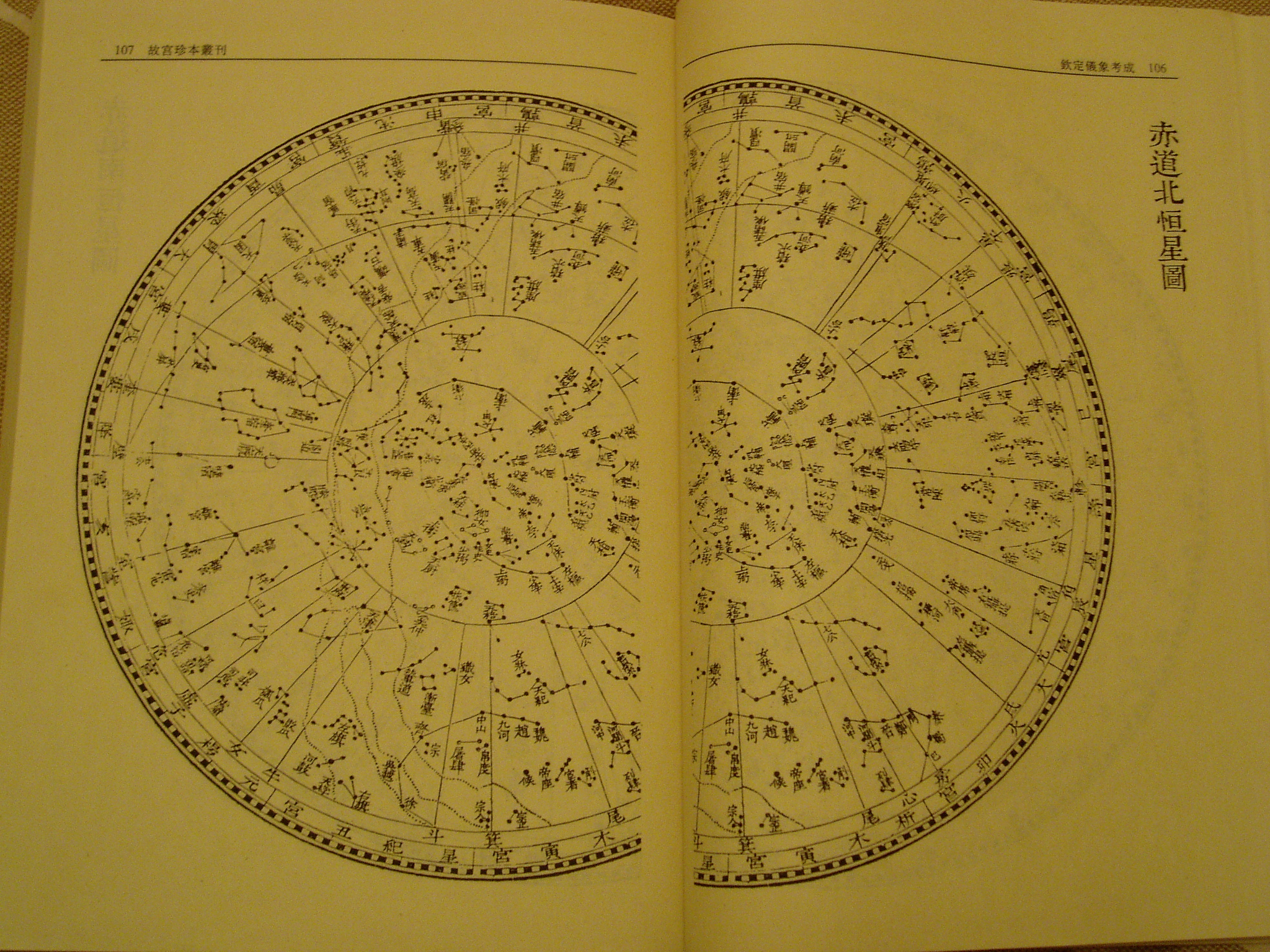 Starchart of the northern celestial sphere